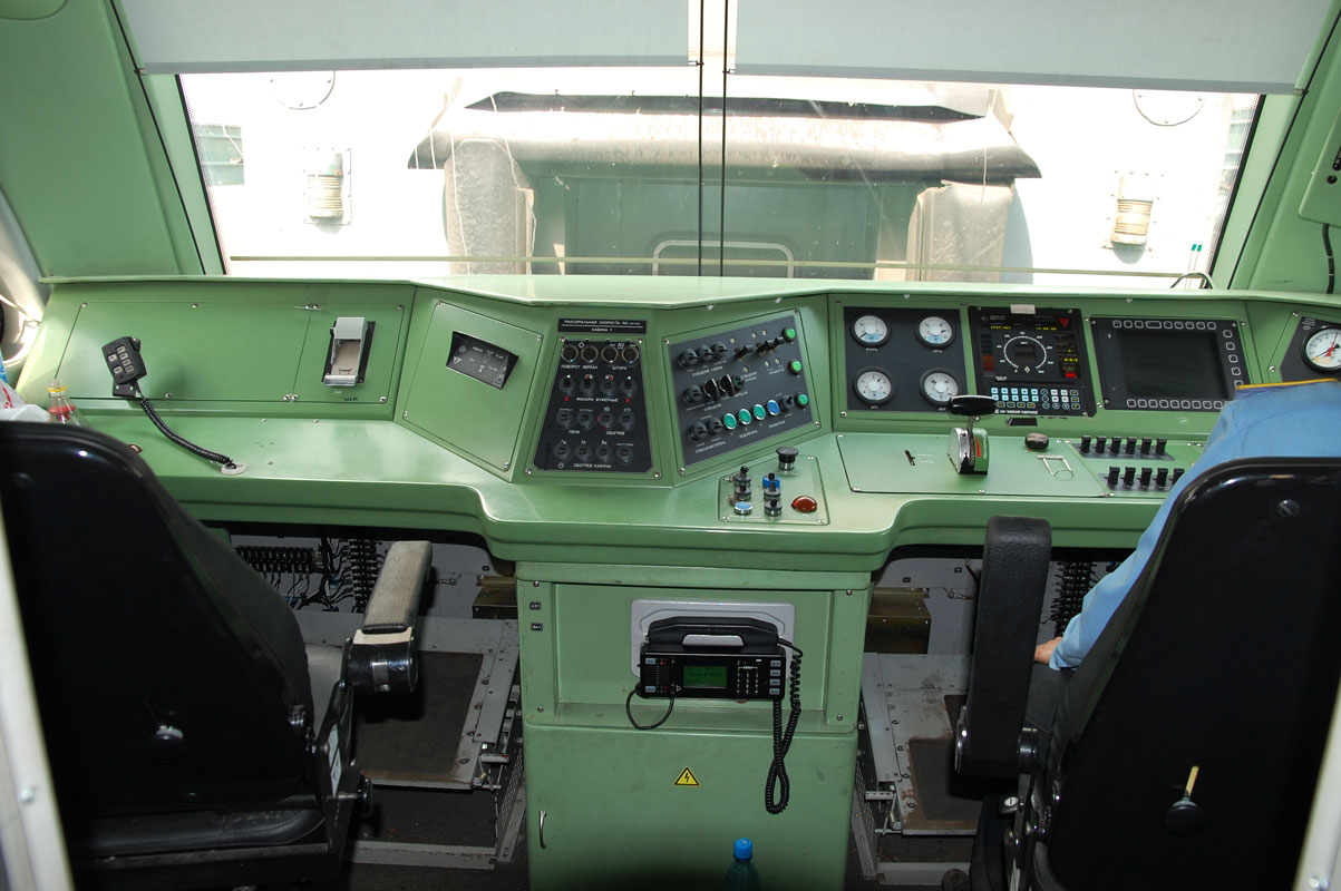 Cab of electric locomotive EP1M.